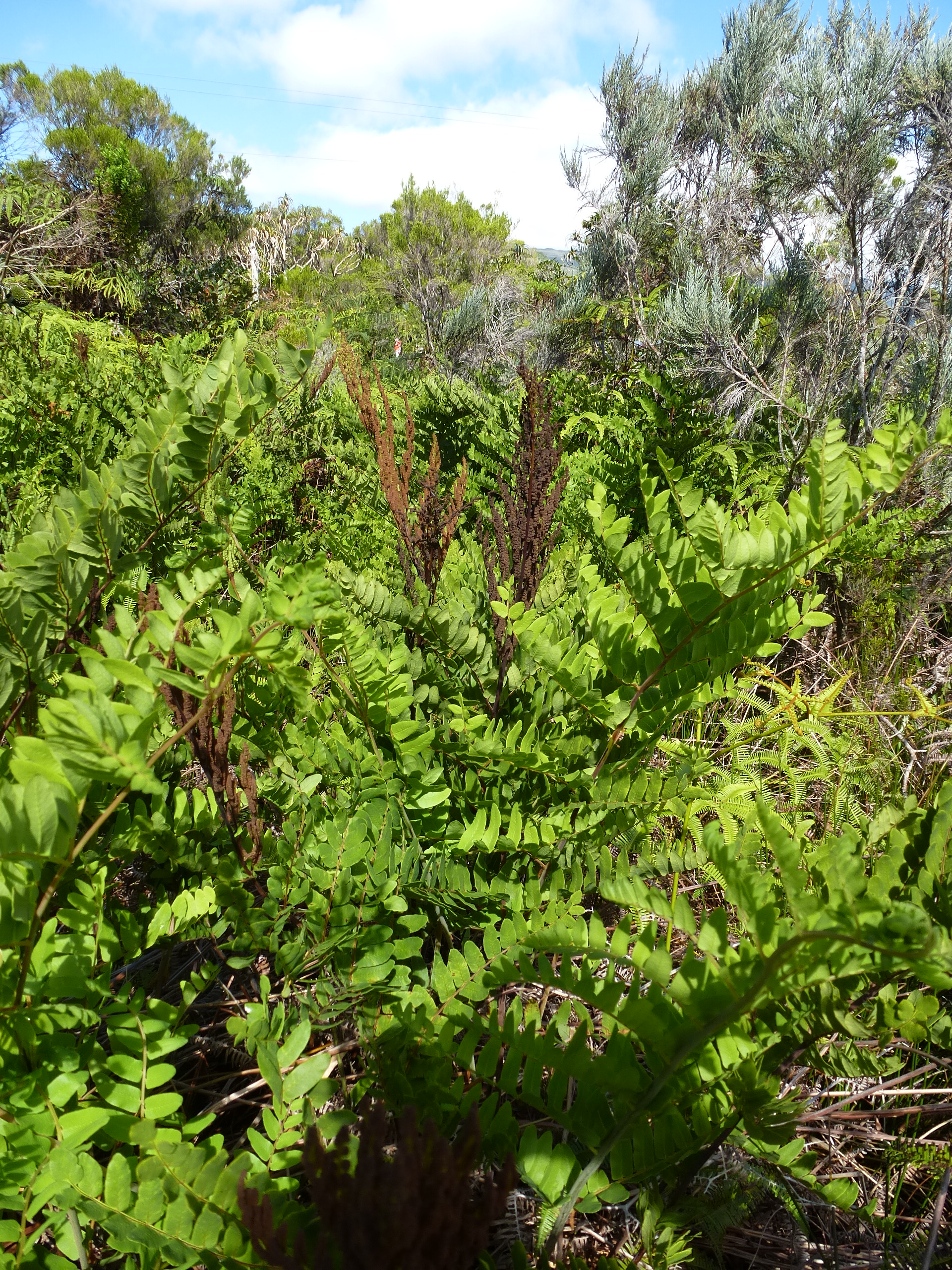 Osmunda regalis fern on Réunion island